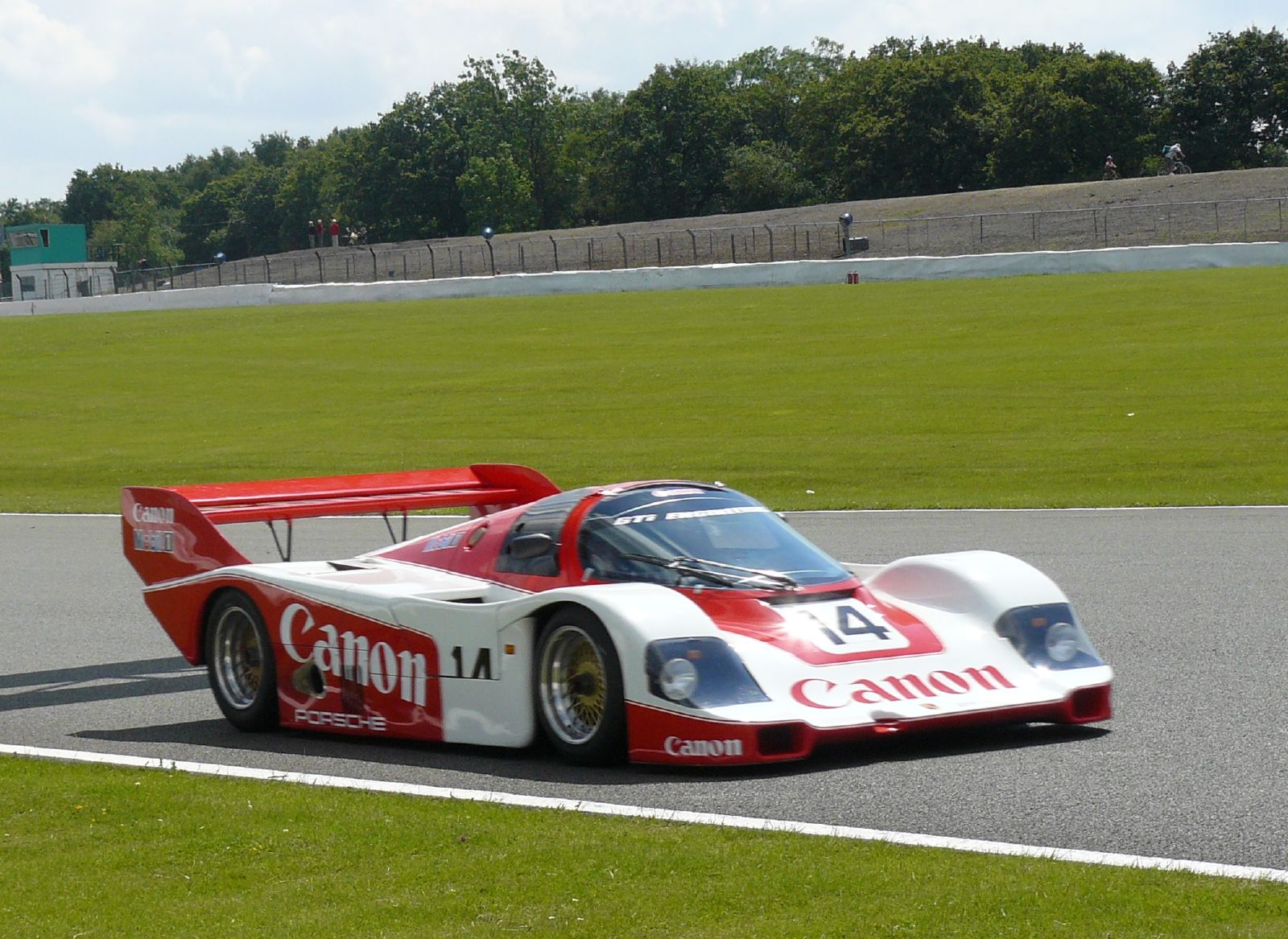 A Porsche 956 at the Silverstone Classic